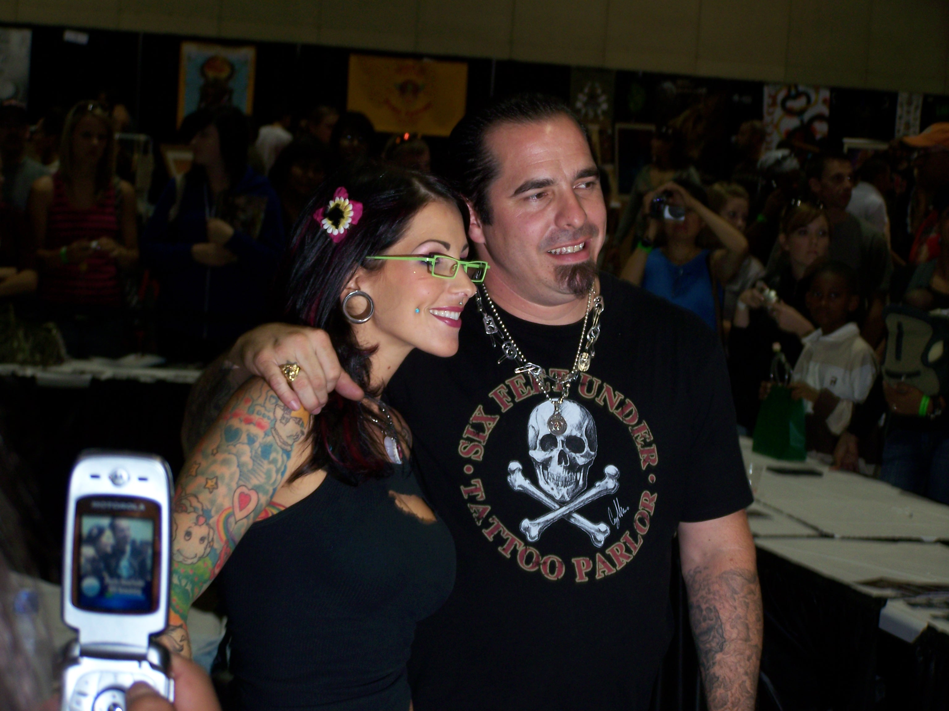 Pixie Acia (left) and Corey Miller at the 2007 Calgary Tattoo & Arts Festival held in Calgary, Alberta, Canada.